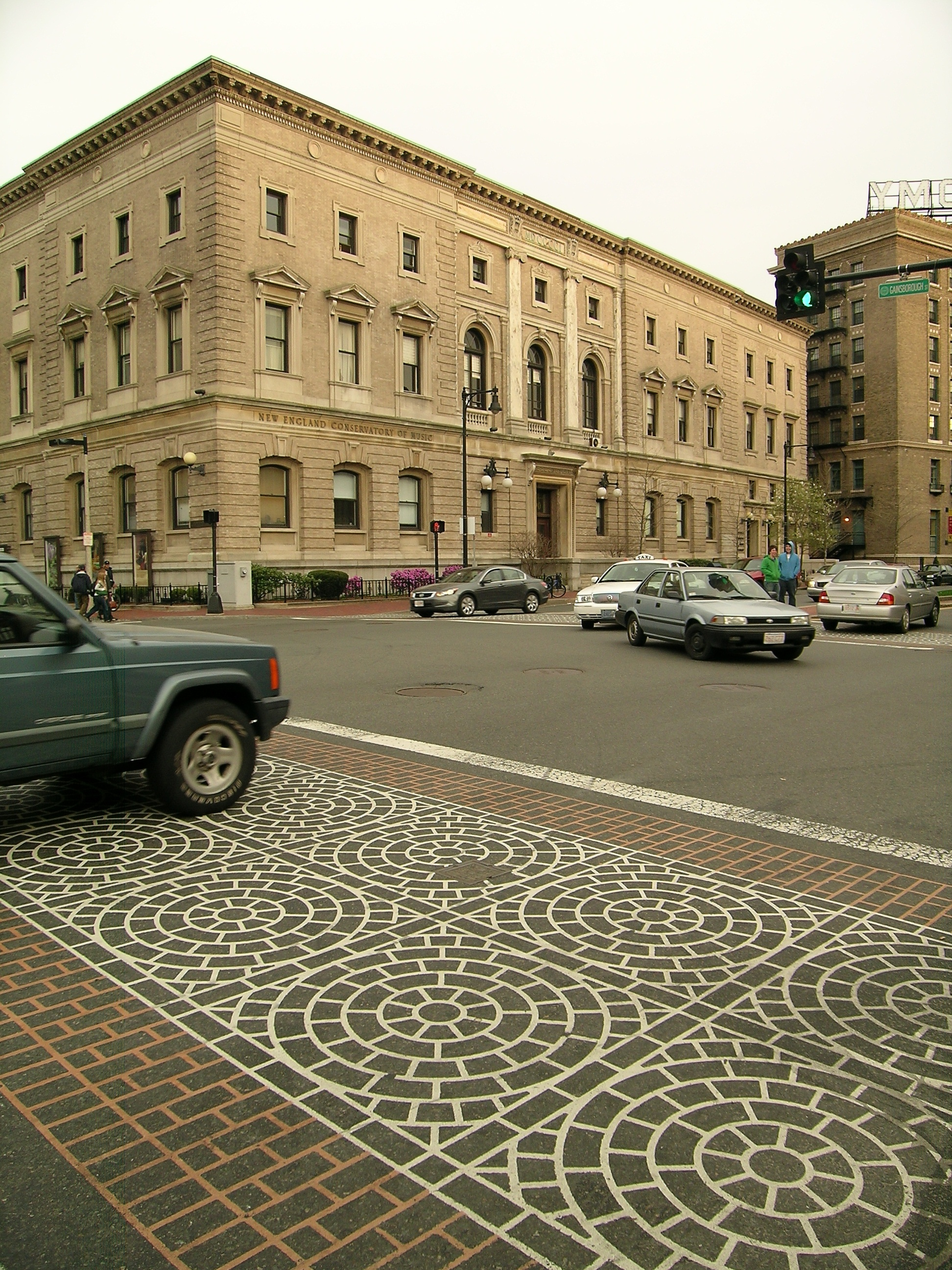 Stenciled crosswalk across Huntington Avenue in Boston, Massachusetts with the New England Conservatory of Music in the background. April 2008 photo by John Stephen Dwyer.